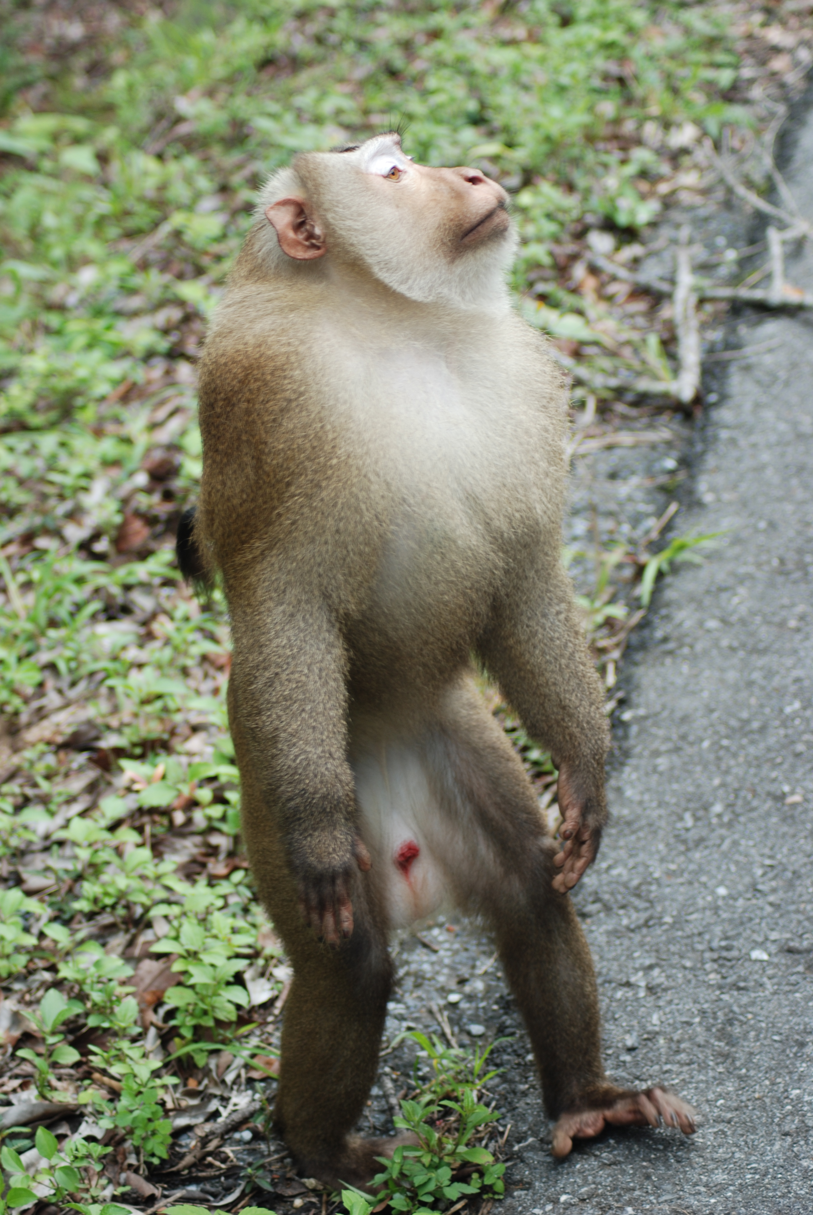 A northern pig-tailed macaque (Macaca leonina) in Khao Yai National Park, Thailand